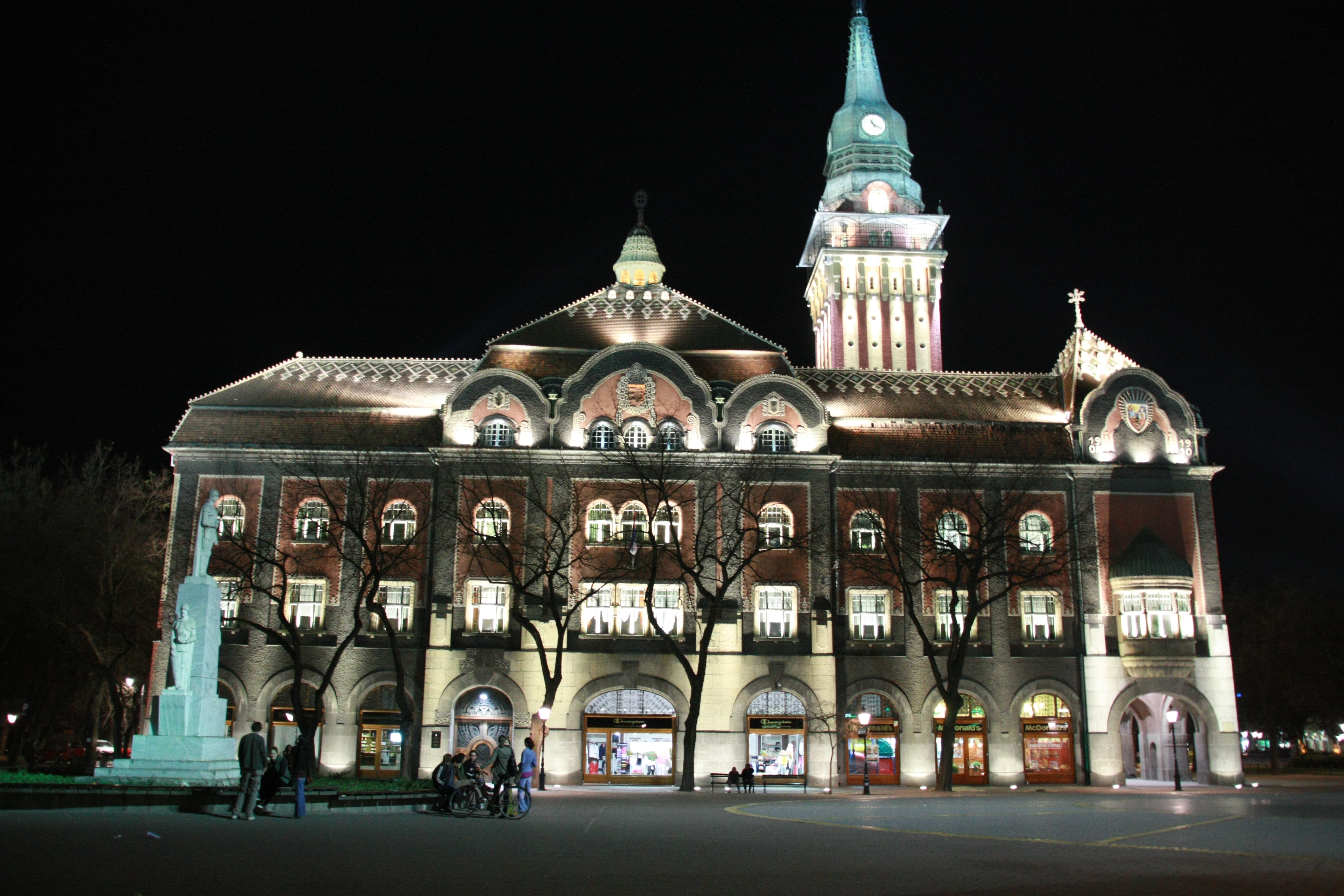 Townhall of Subotica, Vojvodina, Serbia